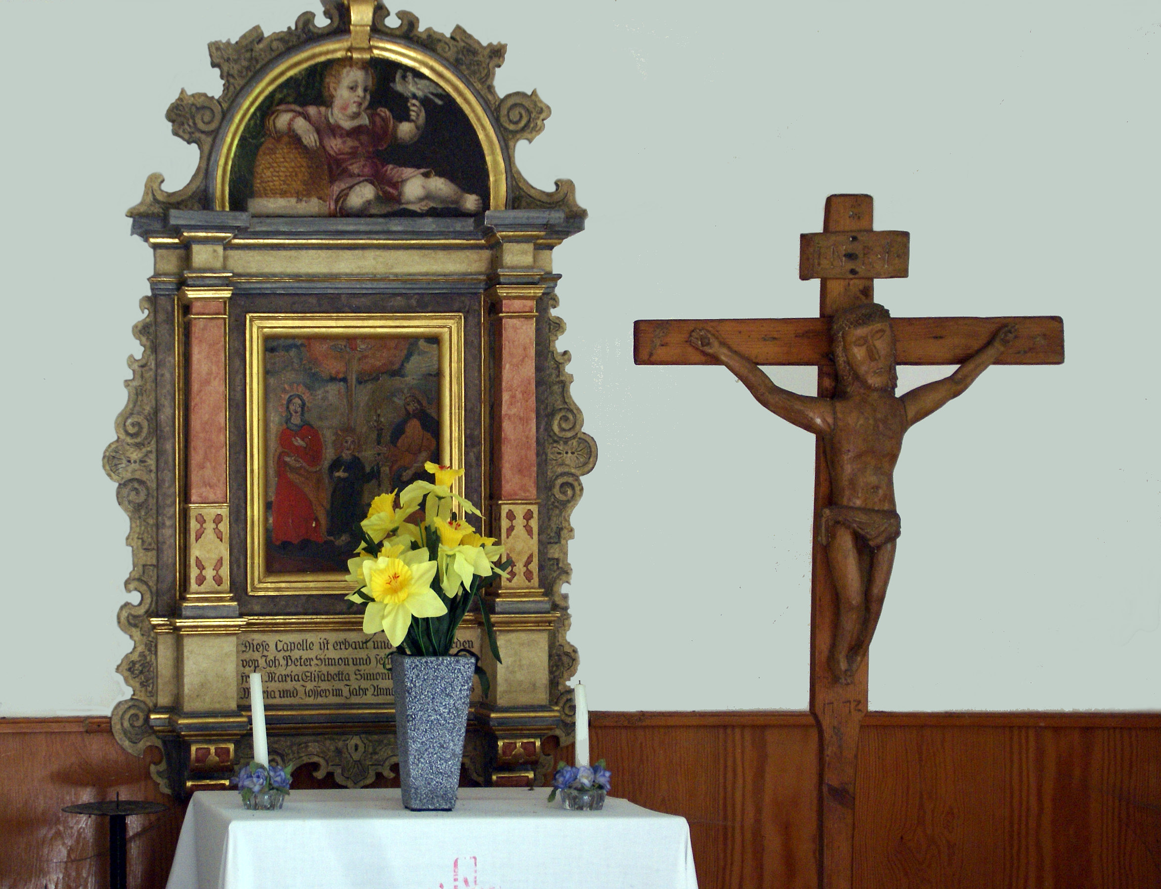 Altar and crucifix in the chapel in Kleinhemsbach